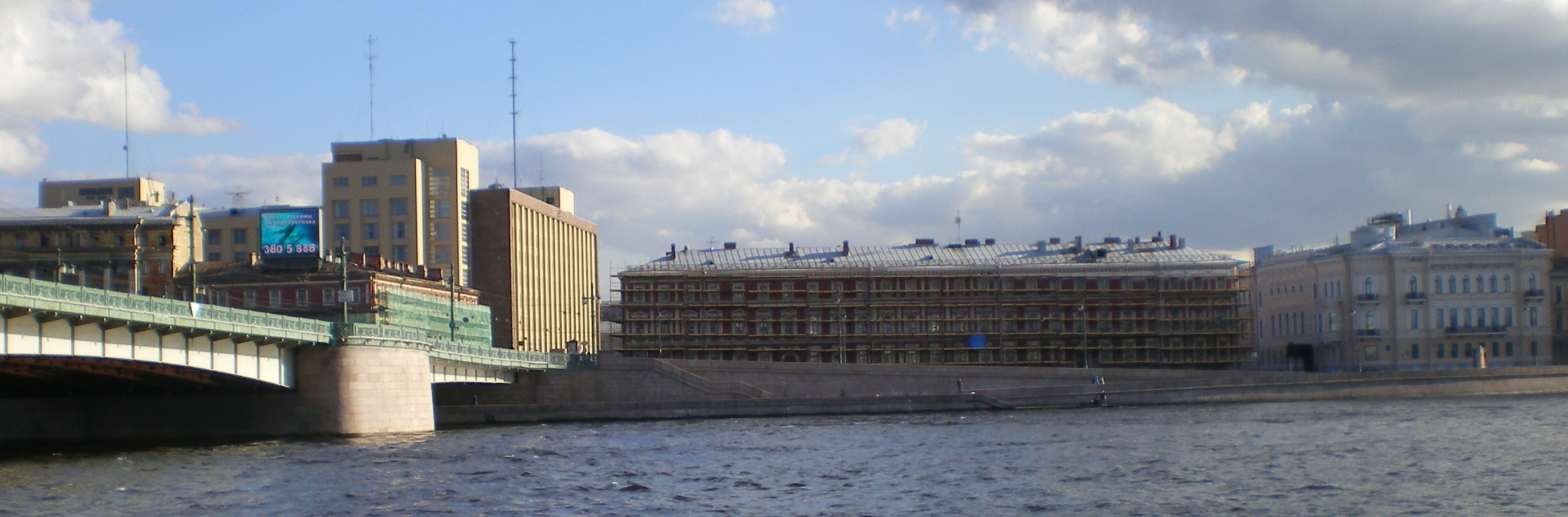 Liteyny Bridge, Bolshoy Dom and Kutuzov Embankment in Saint Petersburg